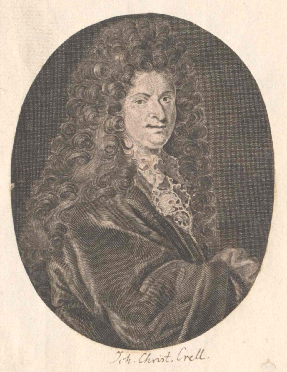 Johann Christian Crell (1690–1762)